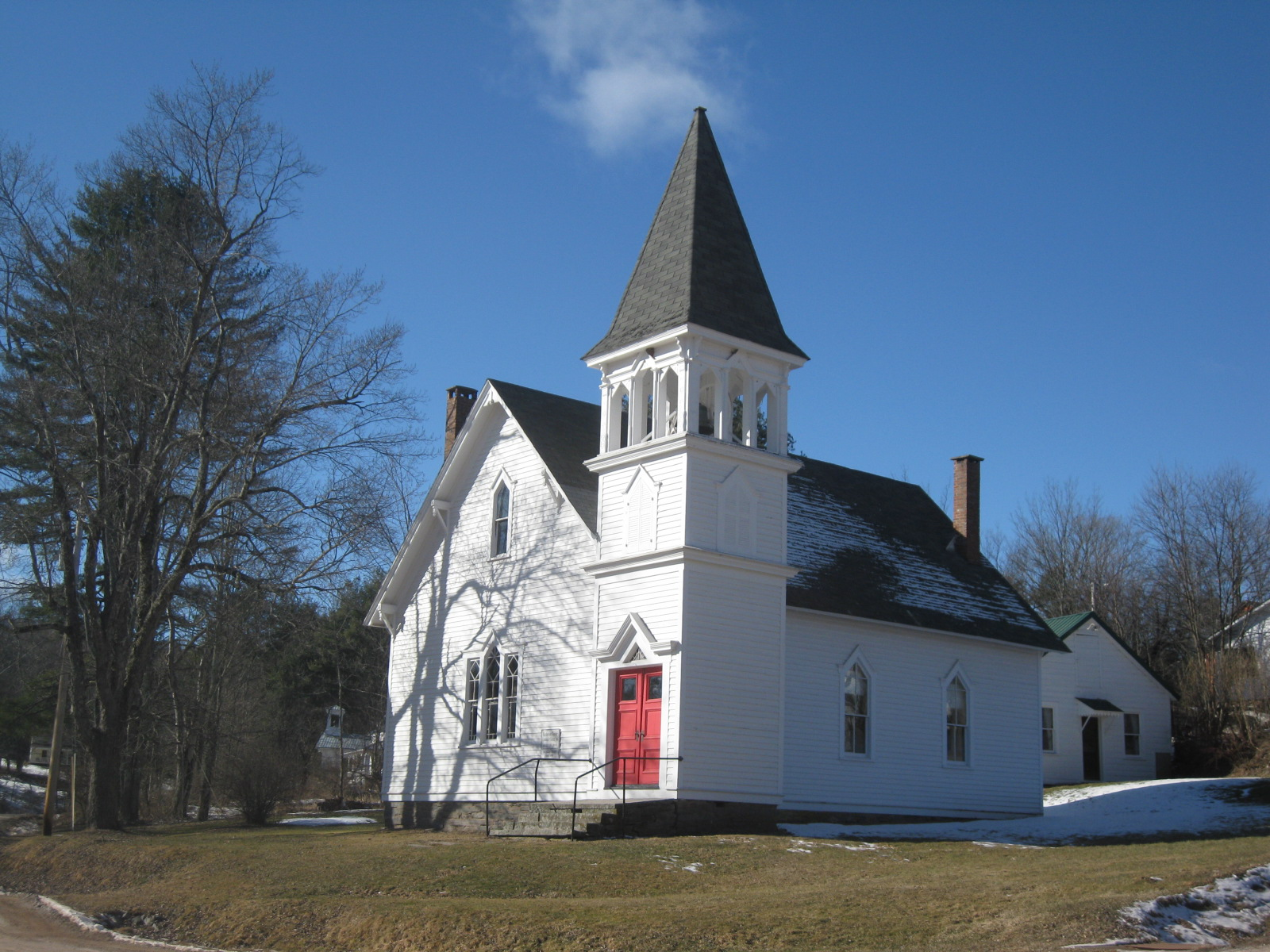 Cohecton Center, New York